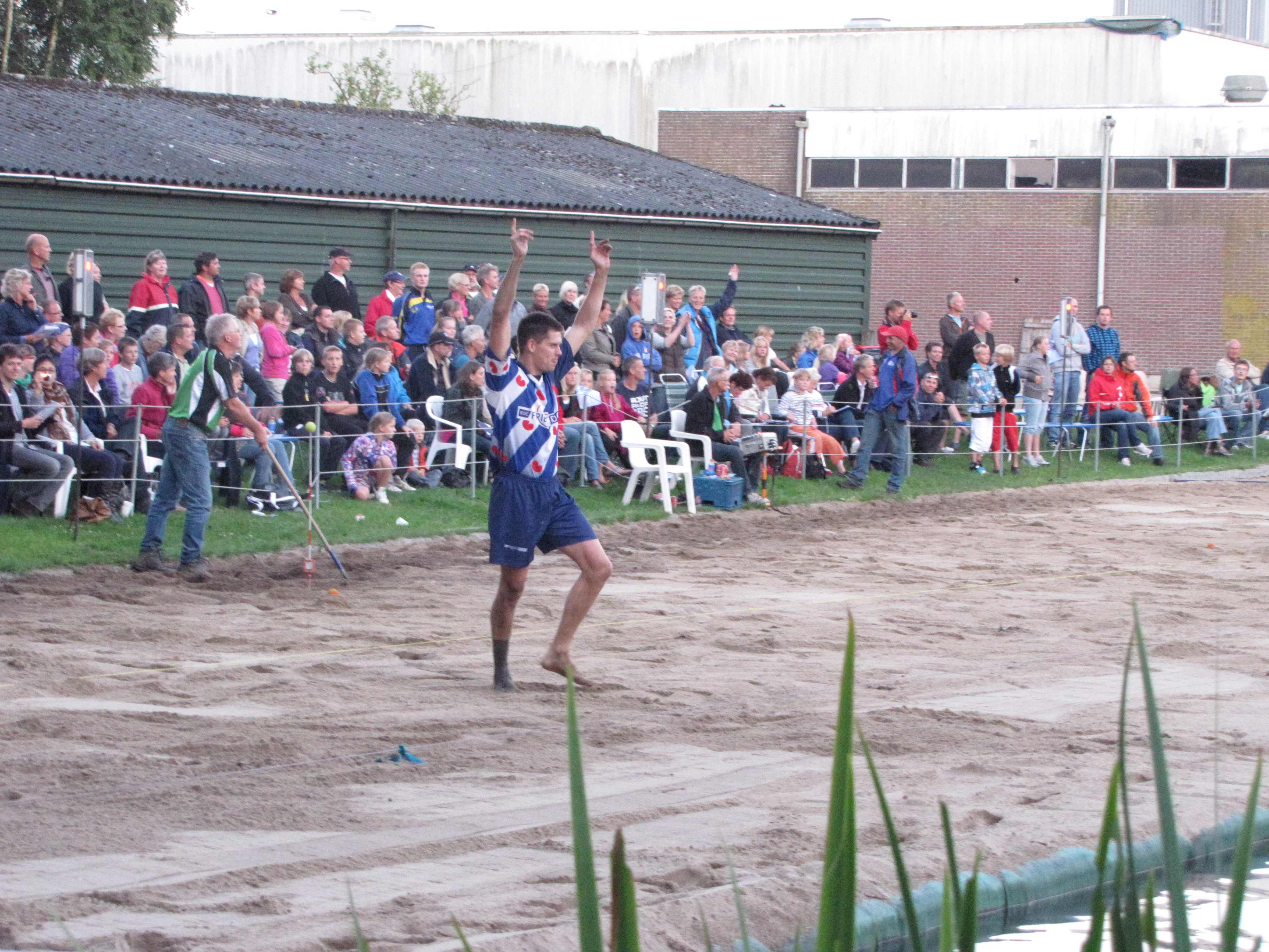 Bart Helmholt in Burgum after setting the Dutch record fierljeppen to 21.26 meters.